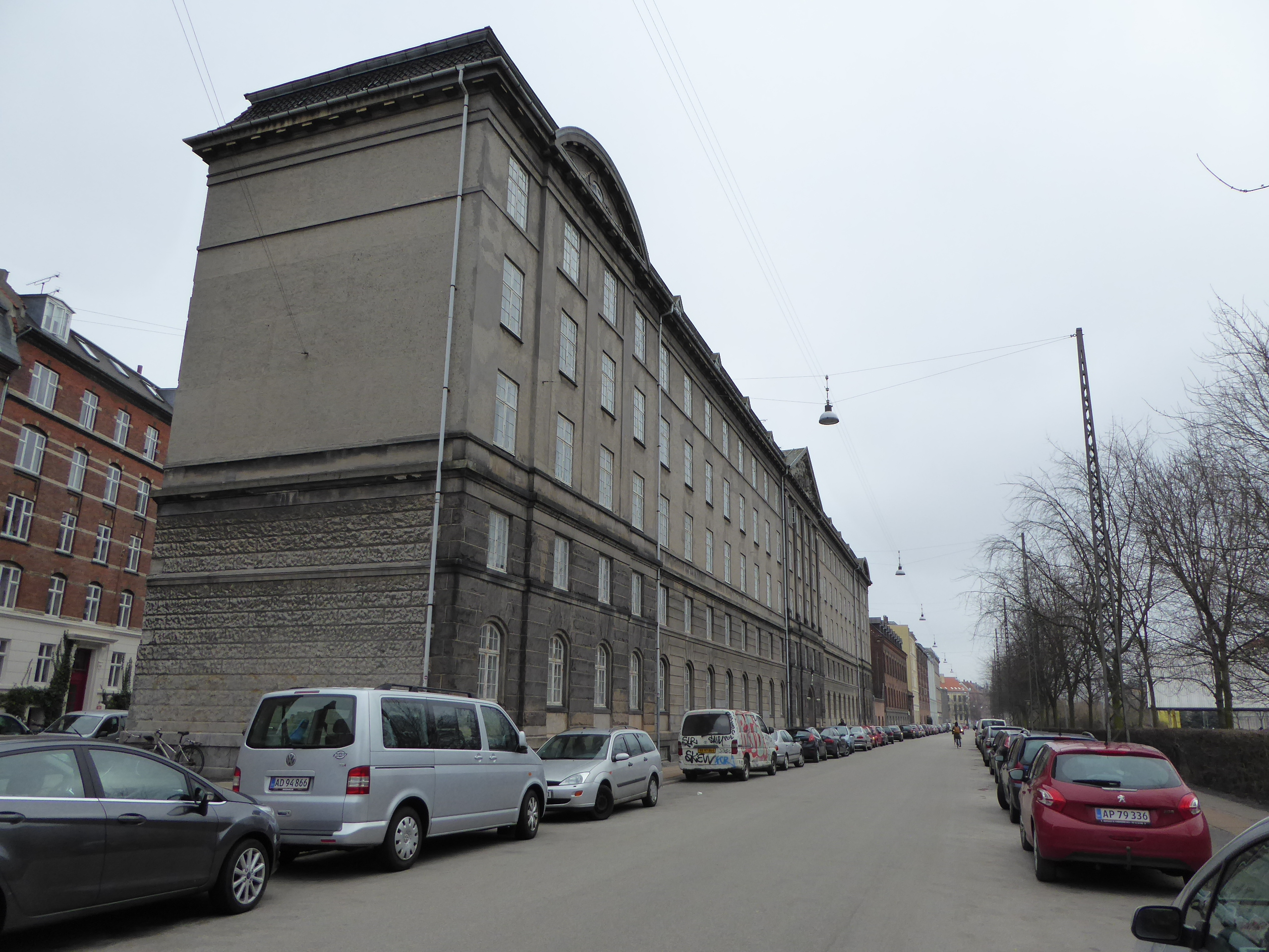 The building Schioldanns Stiftelse at Hørsholmsgade in Nørrebro in Copenhagen.